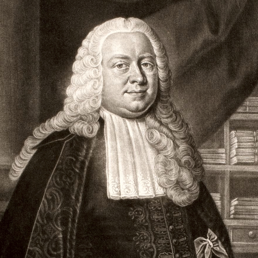 An early 18th century engraving, scanned in from the original by myself. (Geez, who comes up with these picture licensing myths here in Wikipedia?)